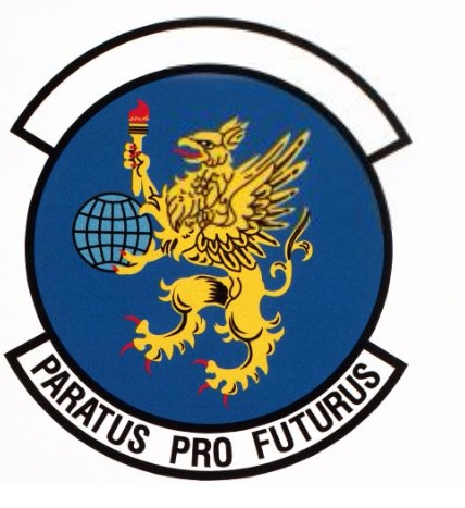 Emblem of the 368th Training Support Squadron (USAF)